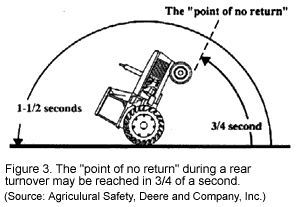 Agrotractor rear turnover